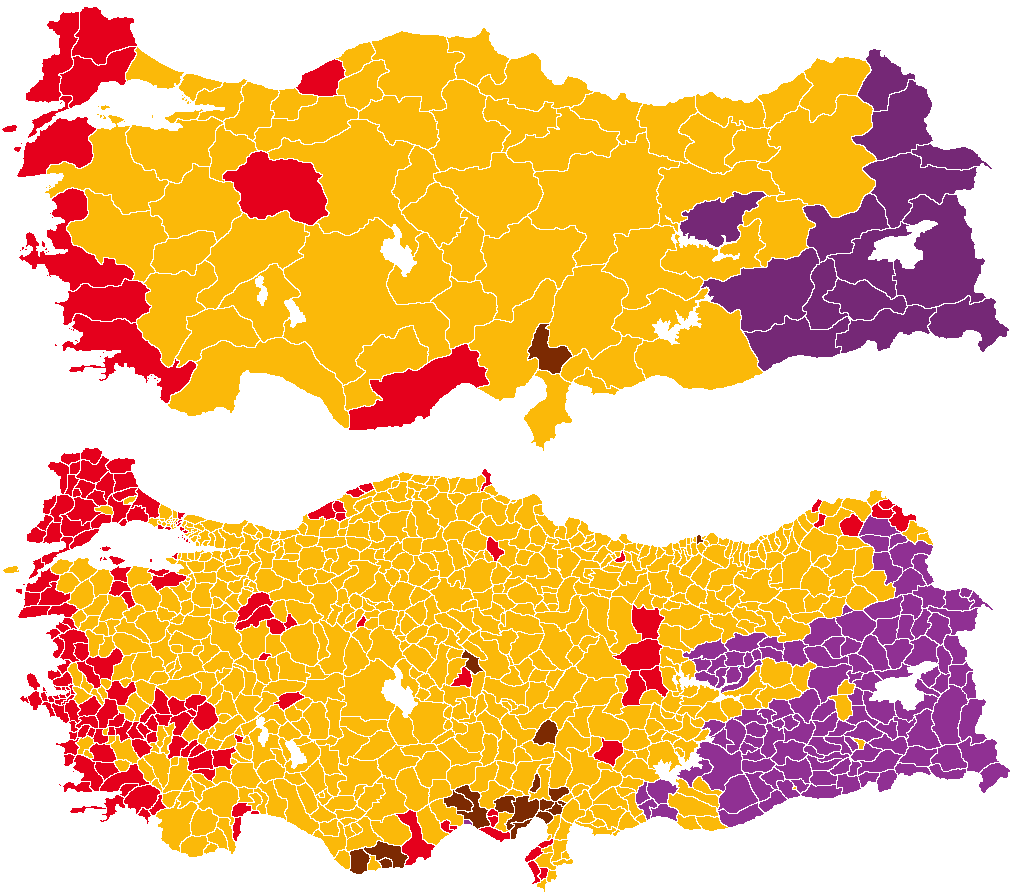 Results by Provinces (top) and districts (bottom) of the 2015 Turkish general election.